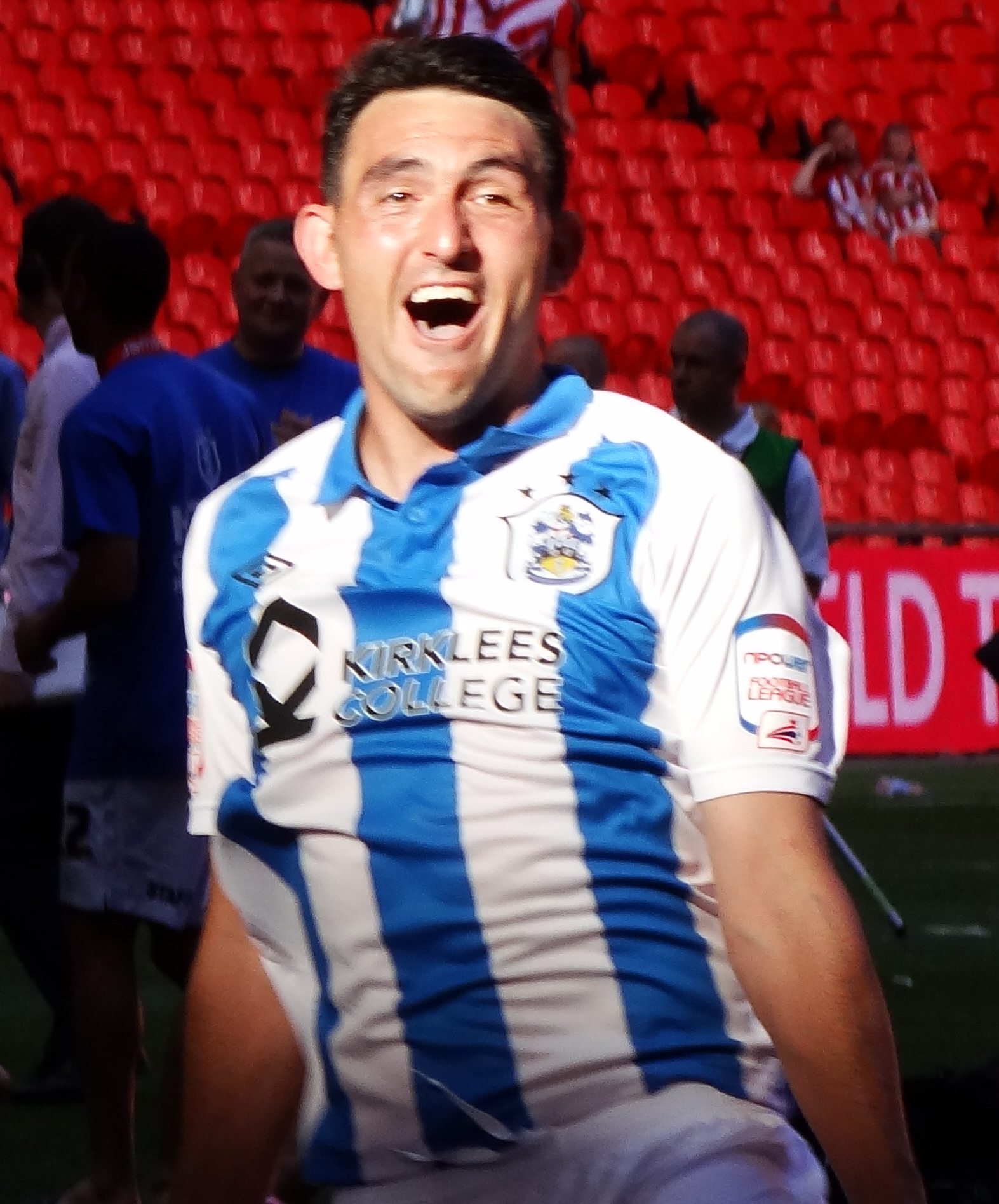 Gary Roberts celebrates winning promotion with Huddersfield